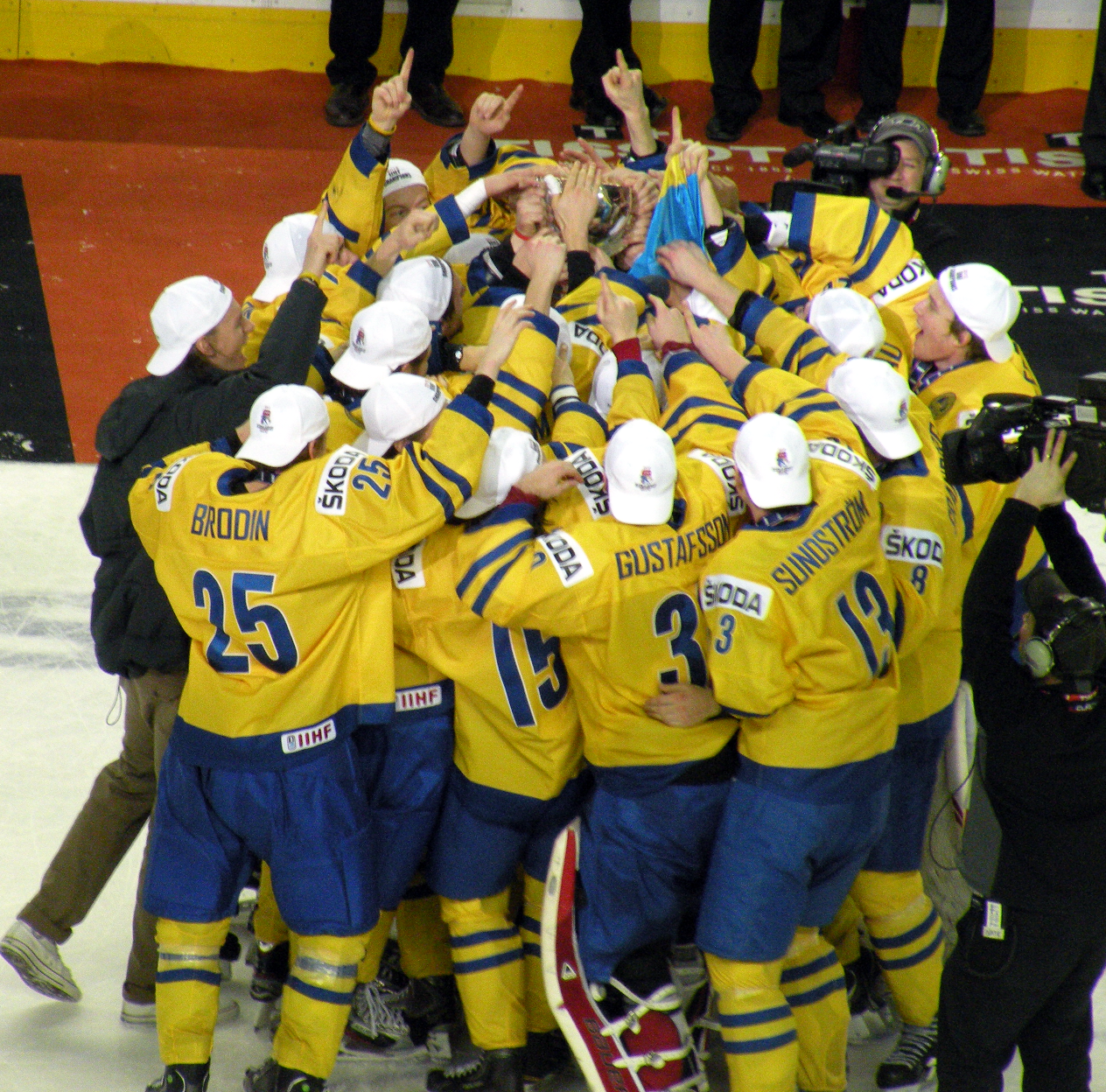 The Swedish national junior team celebrates with the 2012 World Junior Championship Trophy after defeating Russia in the gold medal game held at Calgary, Alberta, Canada.